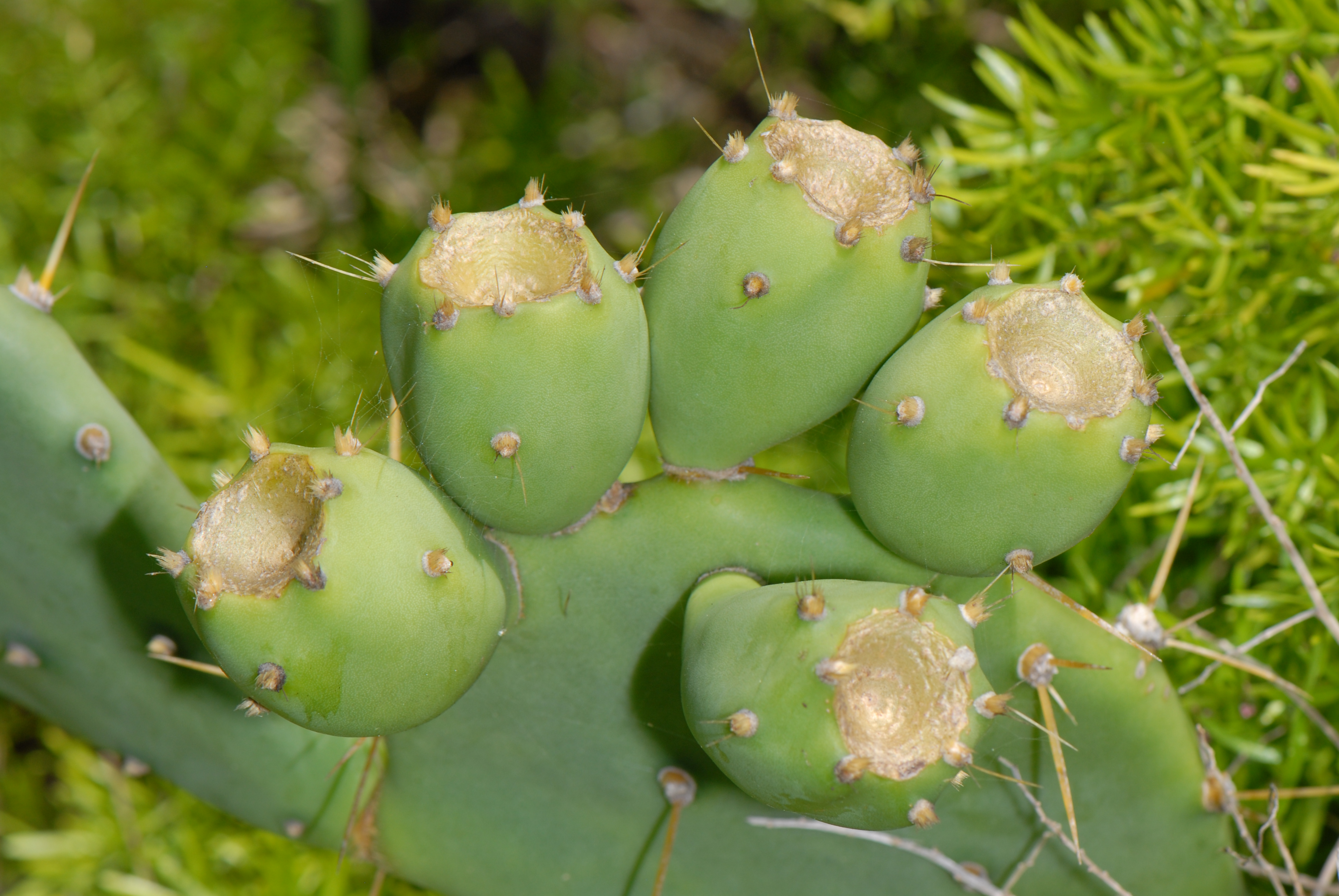 BDA: 32� 18' 46" N x 64�43' 27" W Spittal Pond Nature Reserve Smith's Parish, Bermuda 30 July 2009 Sam Fraser-Smith